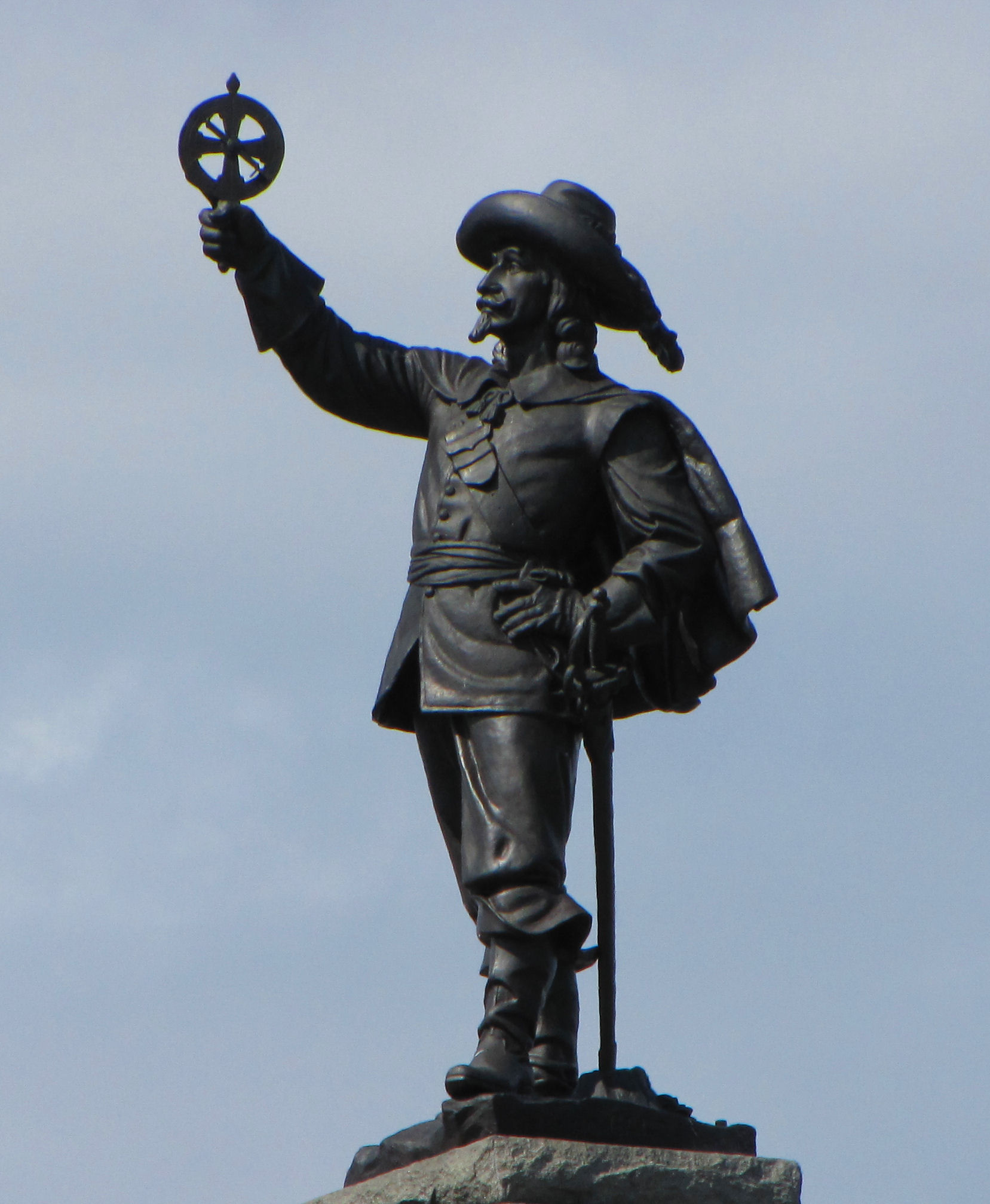 Samuel de Champlain with Astrolabe statue sculpted by Hamilton MacCarthy in 1915, Nepean Point, Ottawa, Ontario, Canada